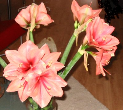 Hippeastrum-hybrid